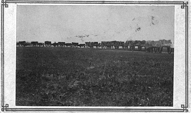 Ox cart train on Red River Trails